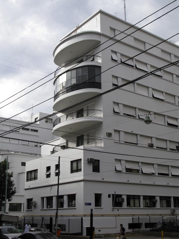 Buenos Aires: Hospital Fernández. Inaugurated in 1889, its current building was completed in 1943.